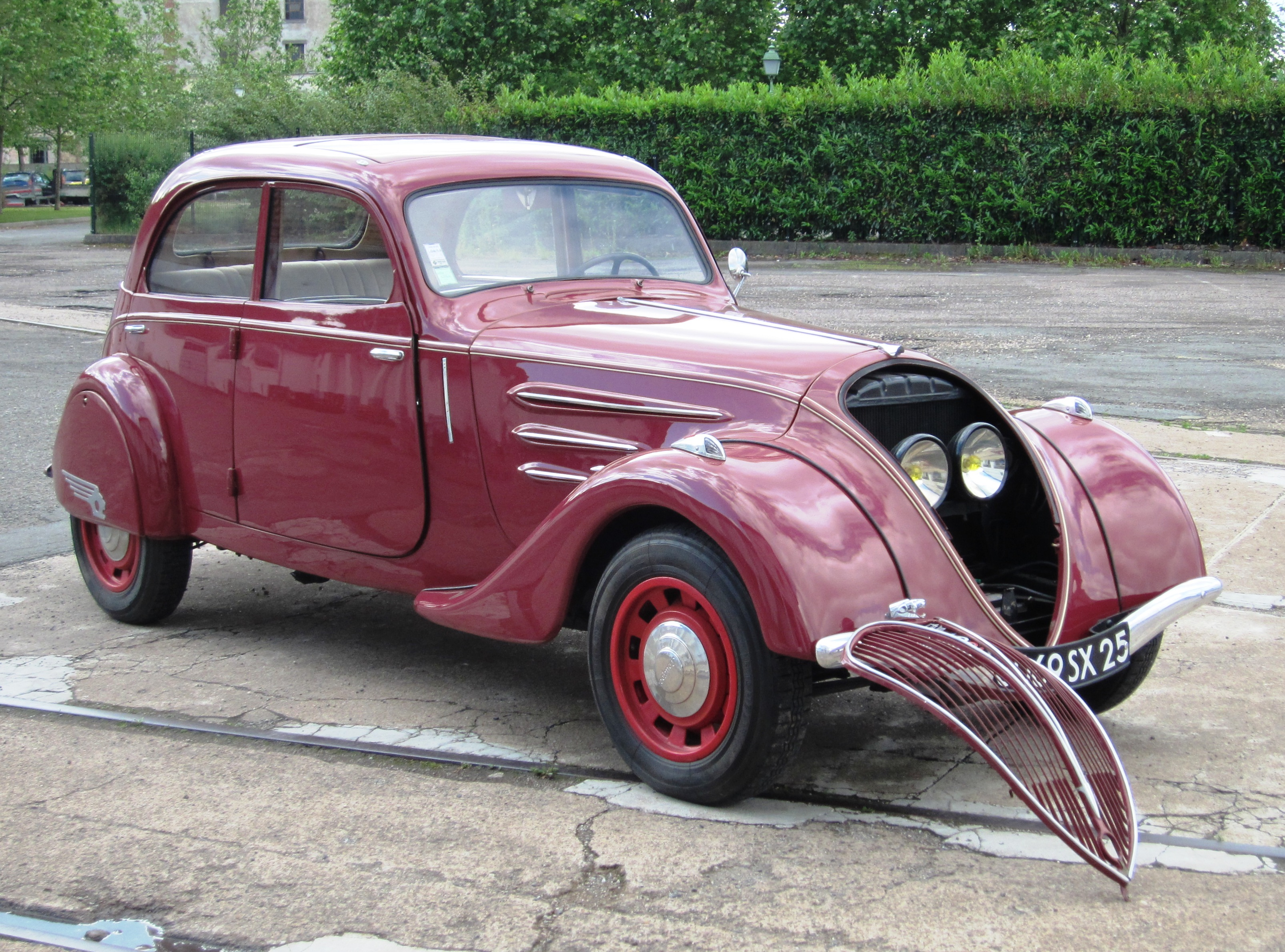 Peugeot 402 Légère Sport This shortened 402 Légère Sport was effectively the body of a Peugeot 202 persuaded onto the (shorter) chassis of the 402.